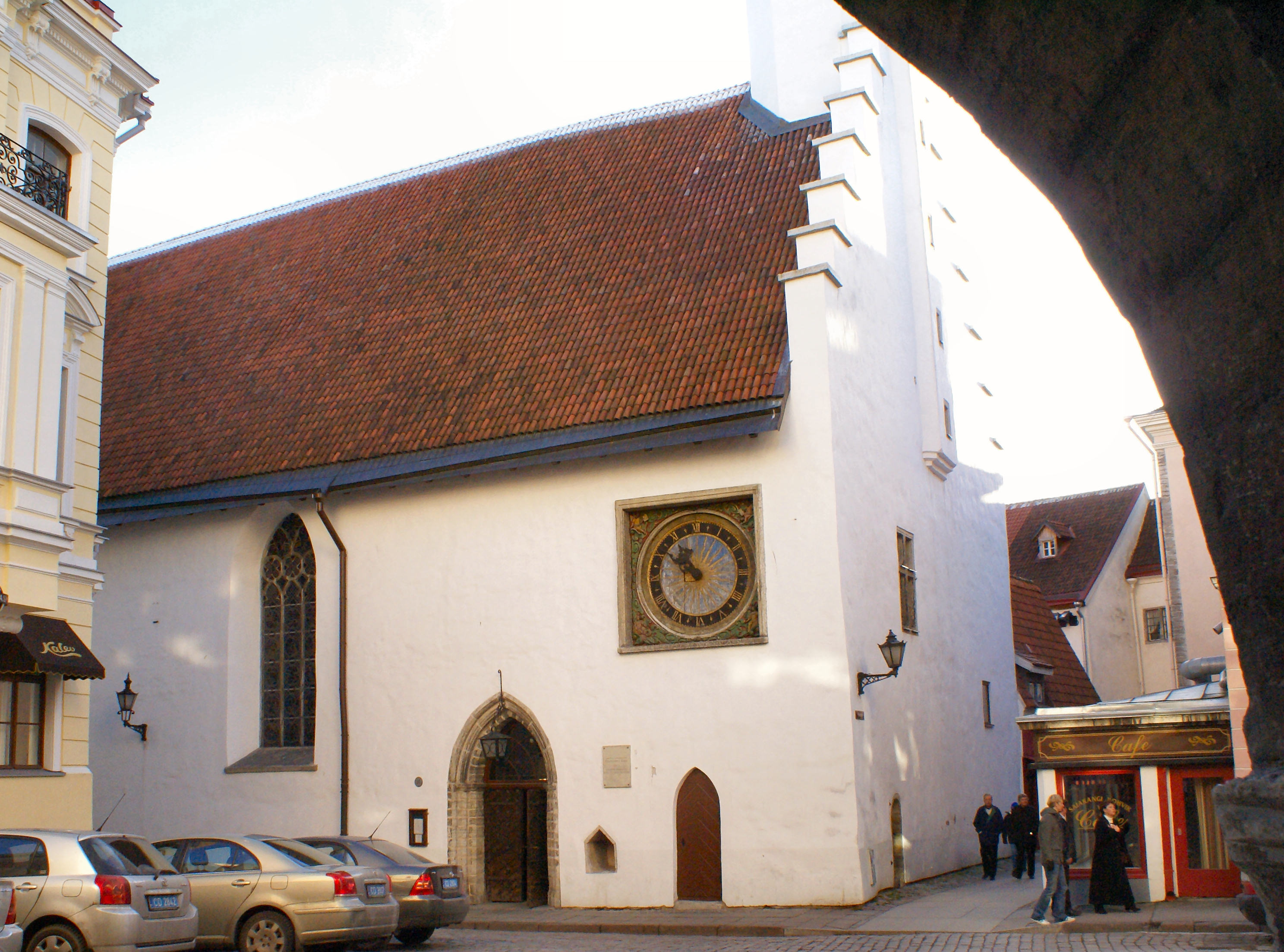 Church of Holy Spirit in Tallinn